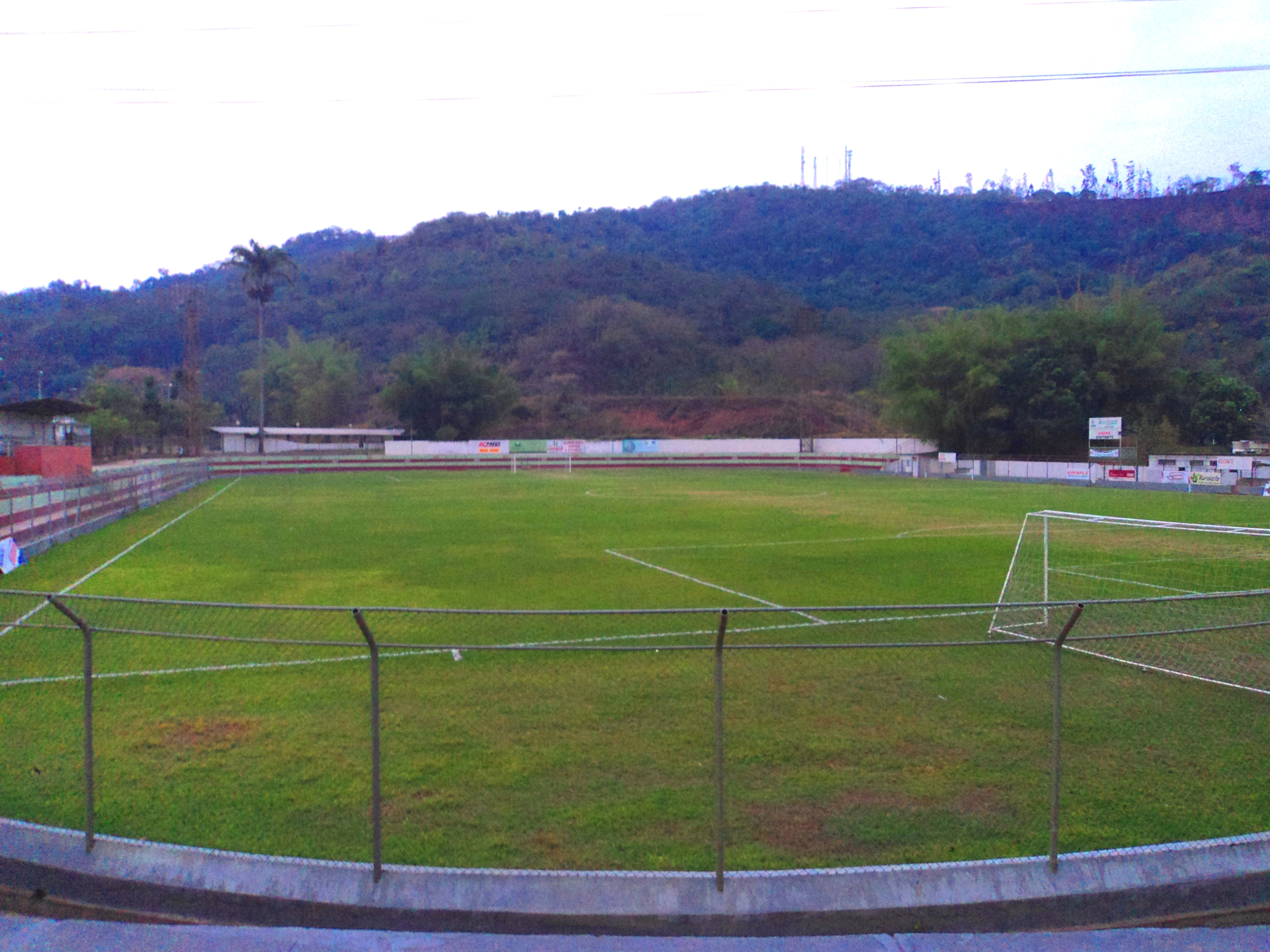 Amaro Lanari Júnior Stadium, in Ipatinga, Minas Gerais, Brazil.